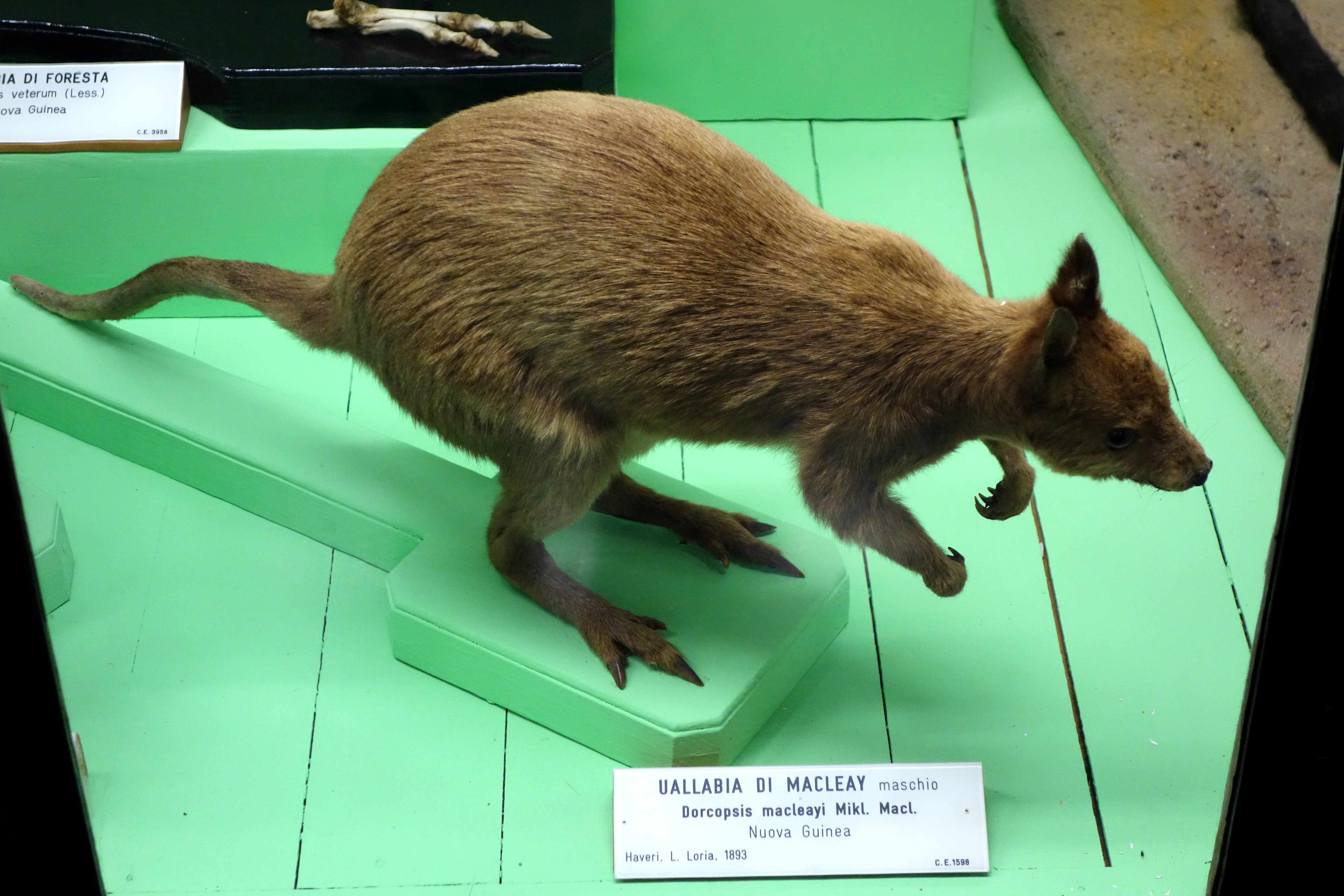 Exhibit in the Museo Civico di Storia Naturale di Genova, Via Brigata Liguria, 9, 16121, Genoa, Italy.